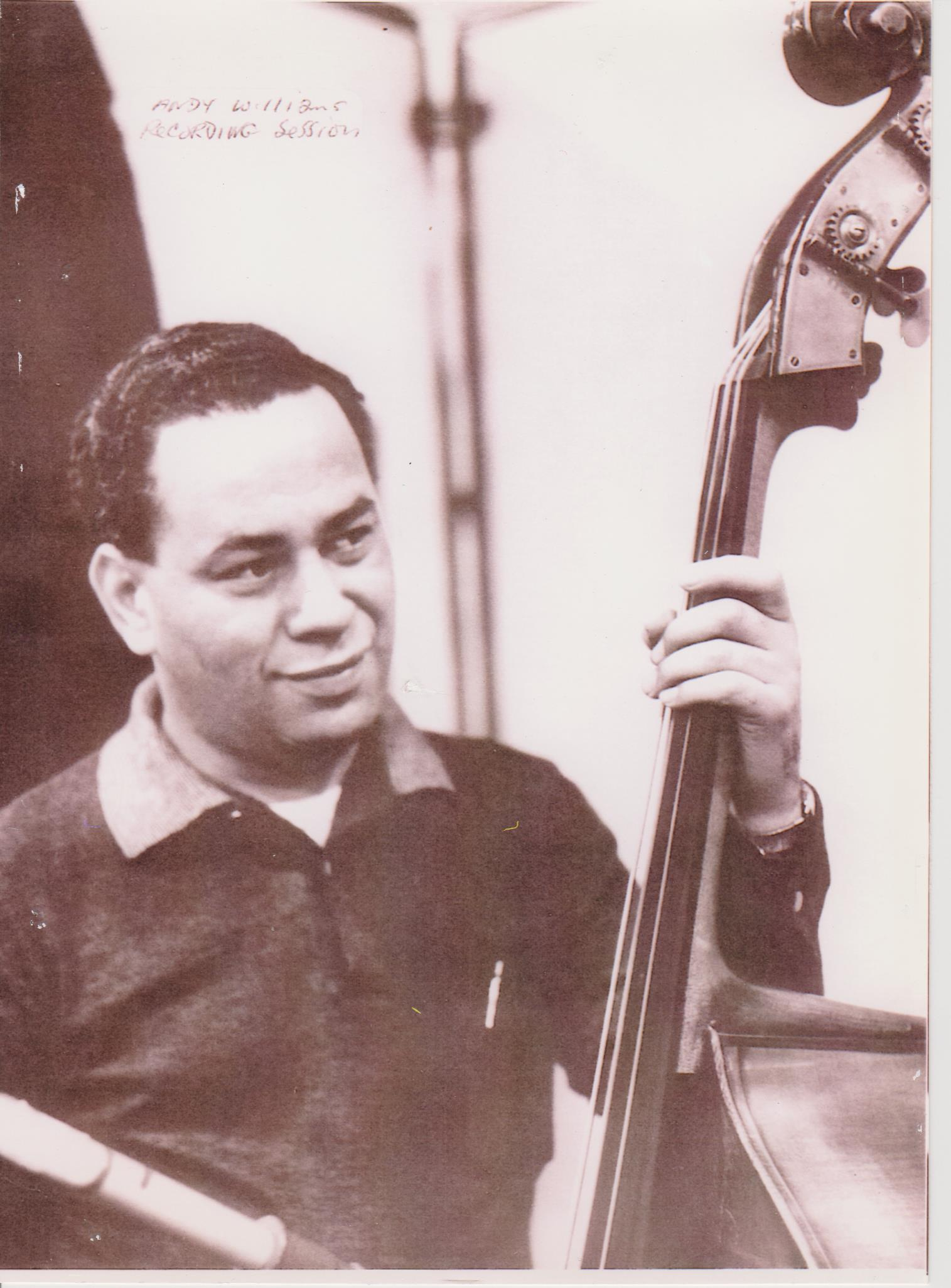 legendary jazz musician